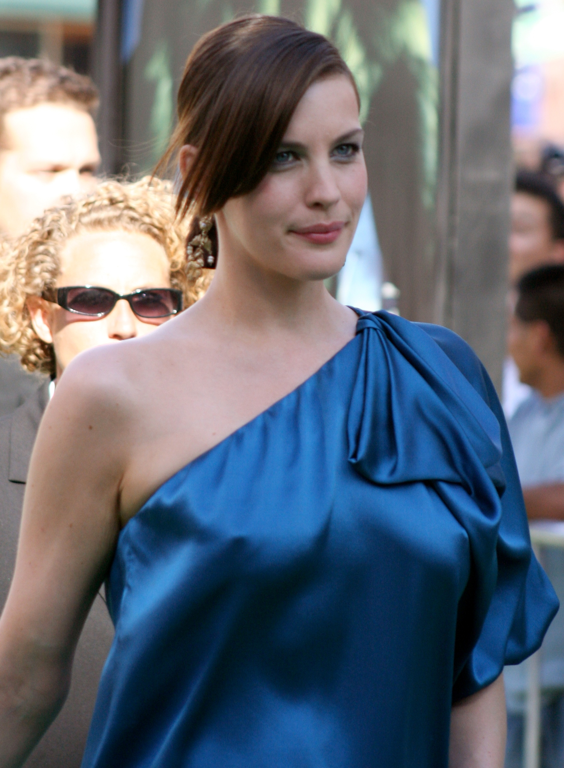 Liv Tyler at the premiere for The Incredible Hulk.